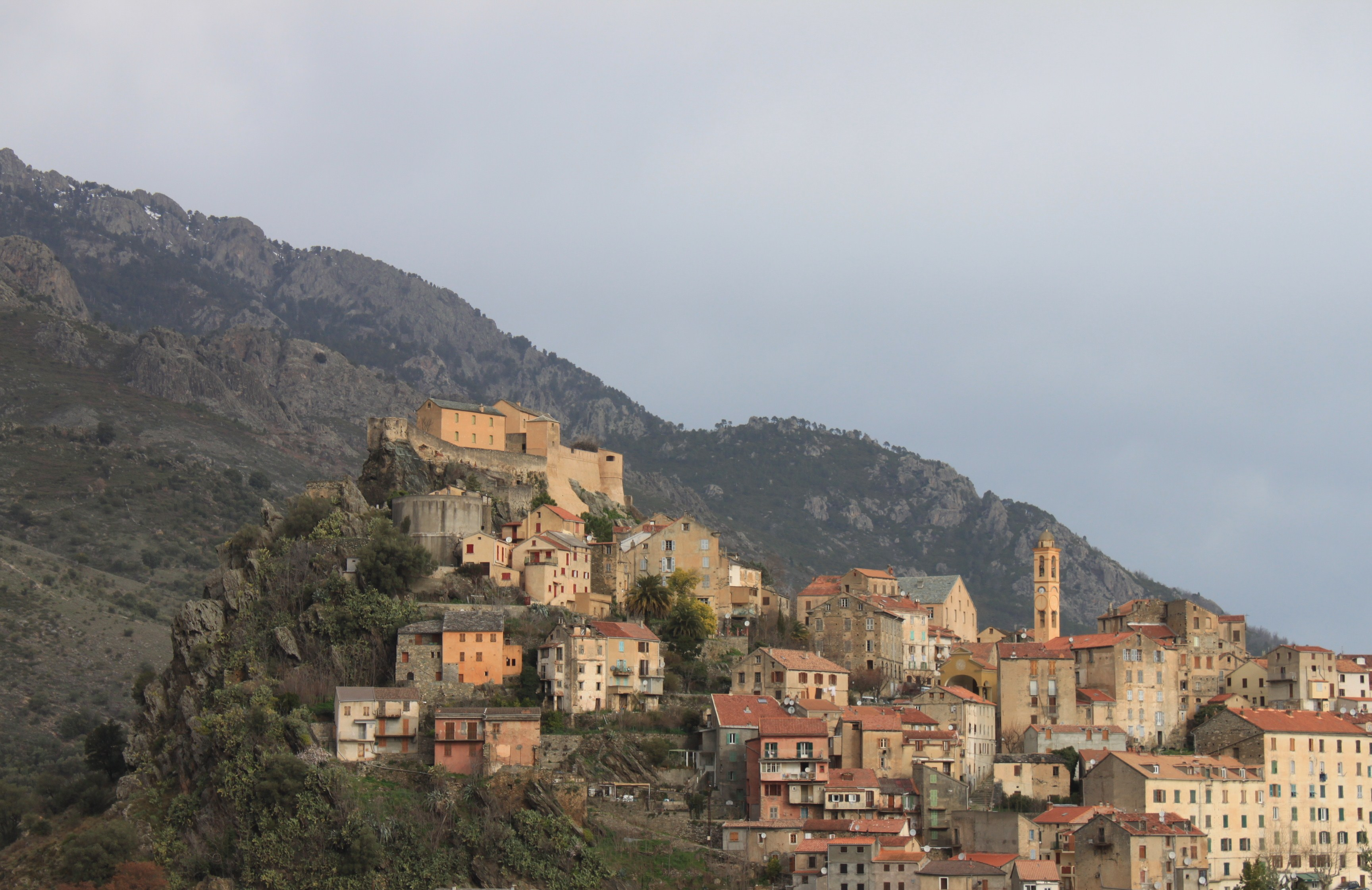 View of Corté City